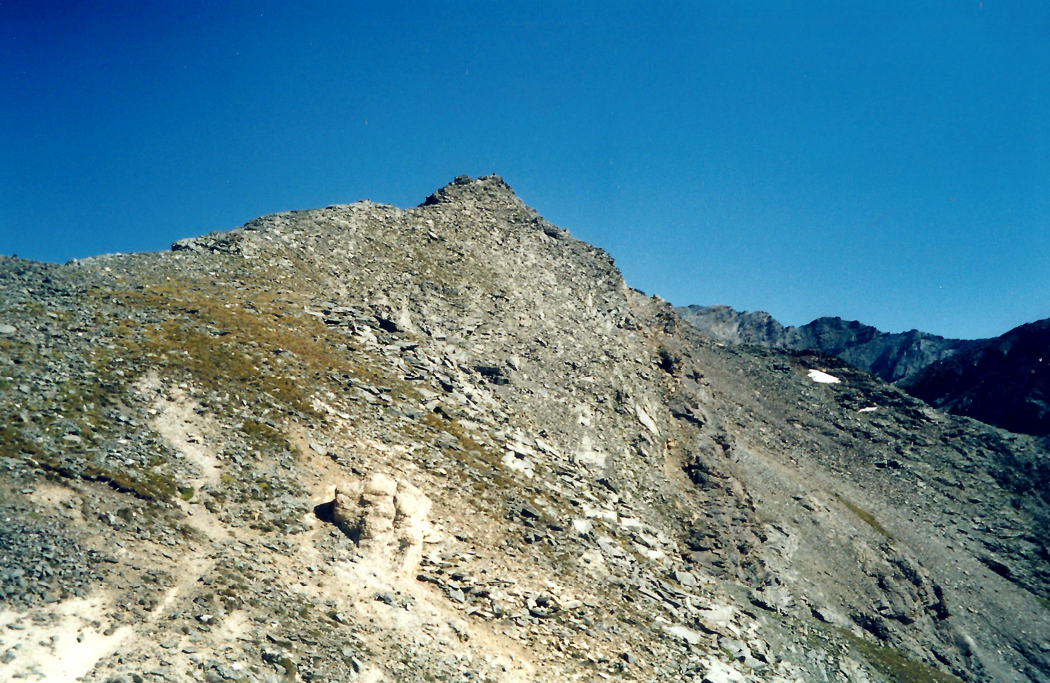 Punta Leynir from Col Rosset (raian Alps, Italy)